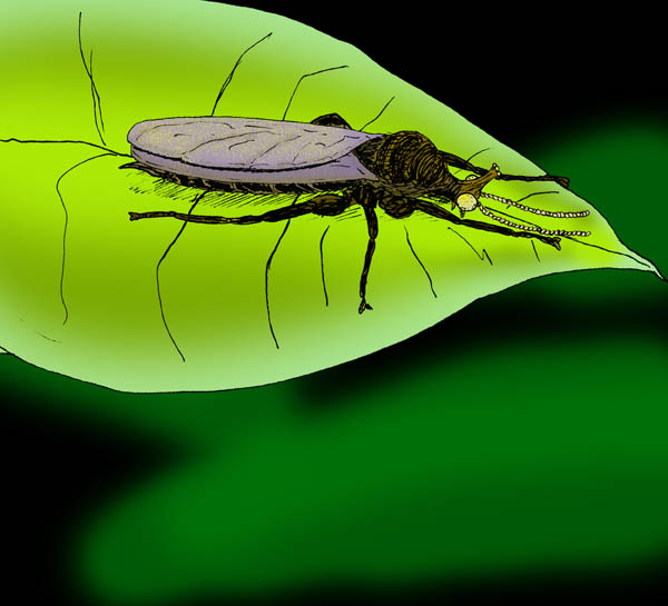 Reconstruction of the Cretaceous day fly, Cascoplecia insolitis, from Burma